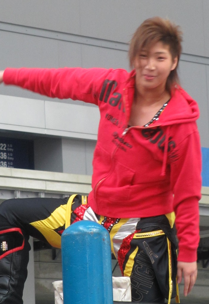 Japanese professional wrestler, Takumi Iroha. Dec 29 2016, Saitama Super Arena, Legend Womens professional wrestling.